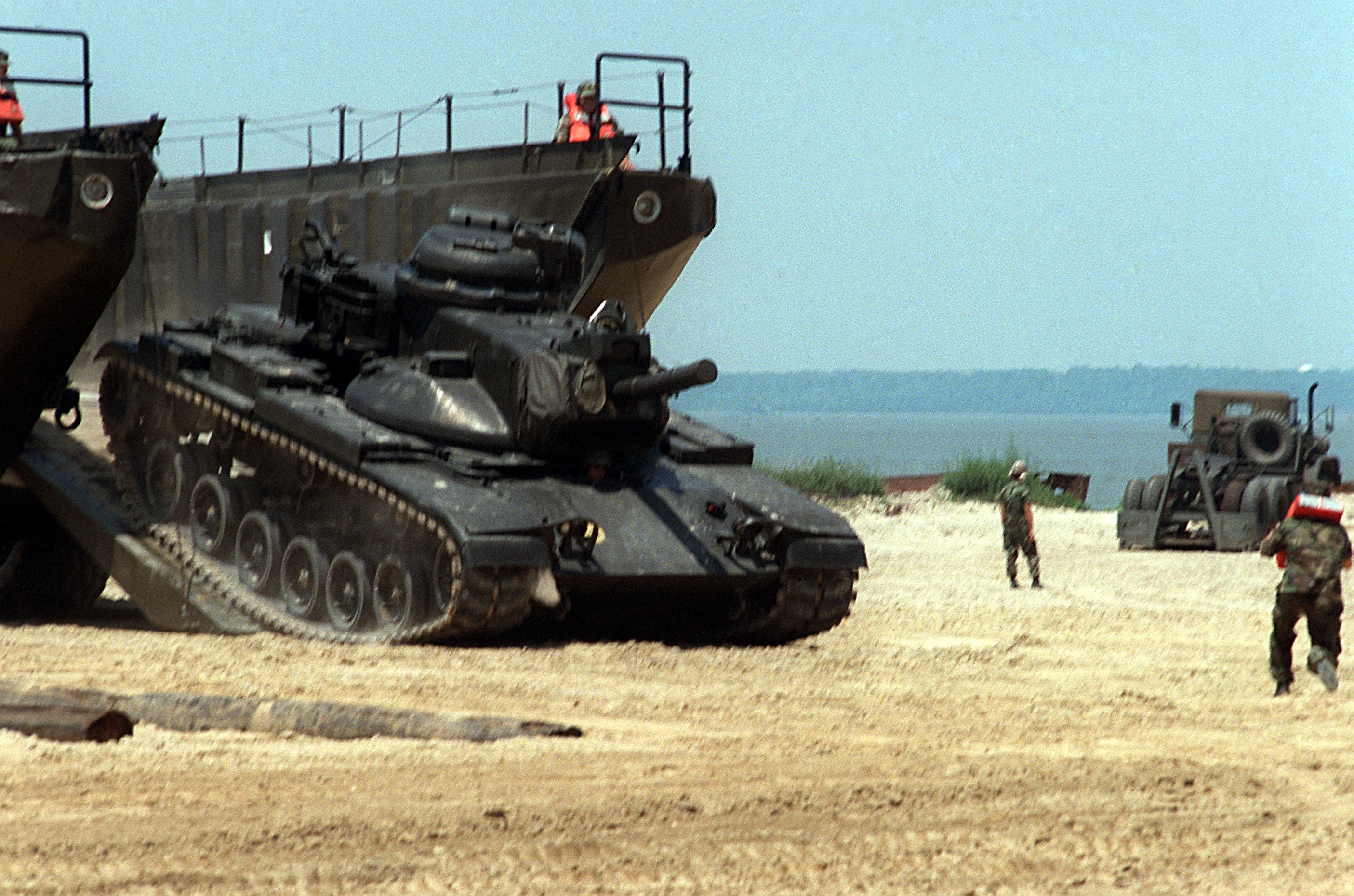 An M60A2 tank is driven off an Army LARC 60 amphibious landing craft on display during the Army logistics exposition PROLOG'85. Location: FORT EUSTIS, VIRGINIA (VA) UNITED STATES OF AMERICA (USA)